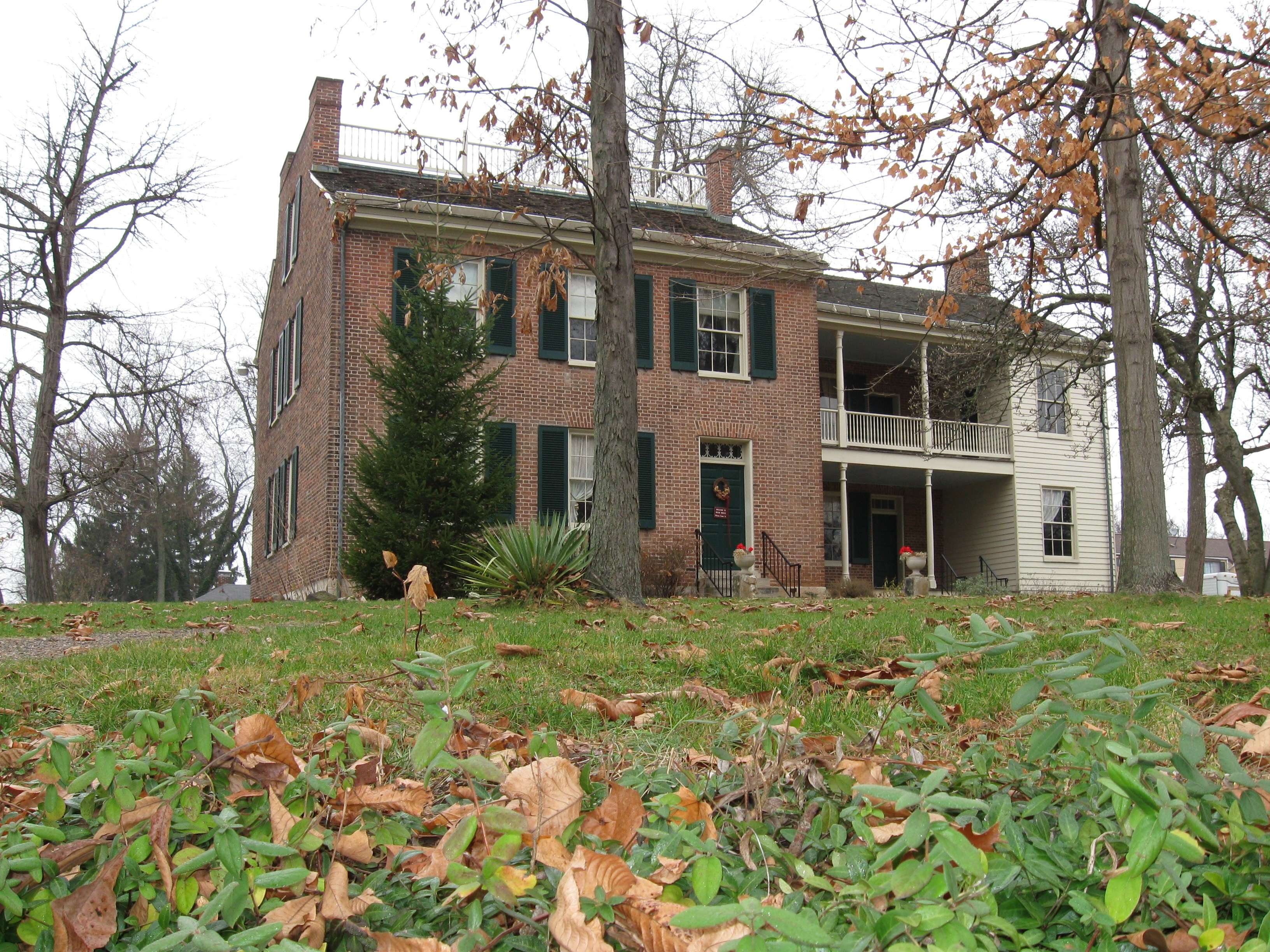 Photo of the home of Andrew Wylie, first president of Indiana University.